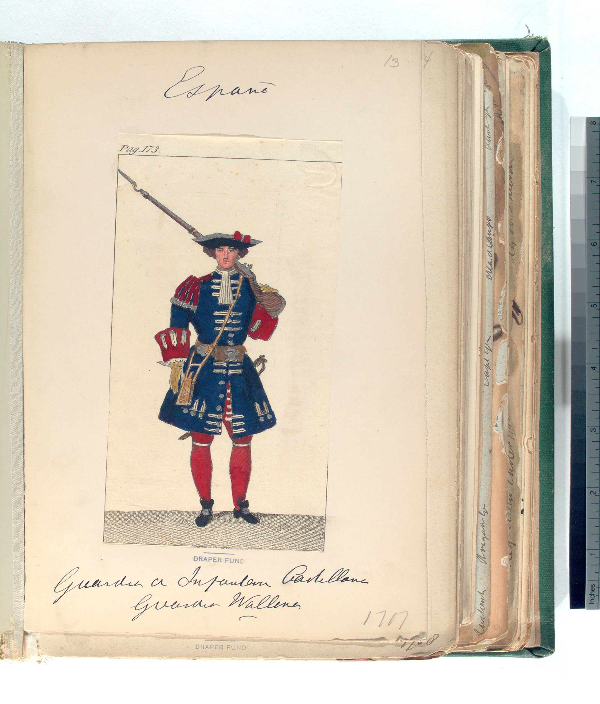 The Draper Fund